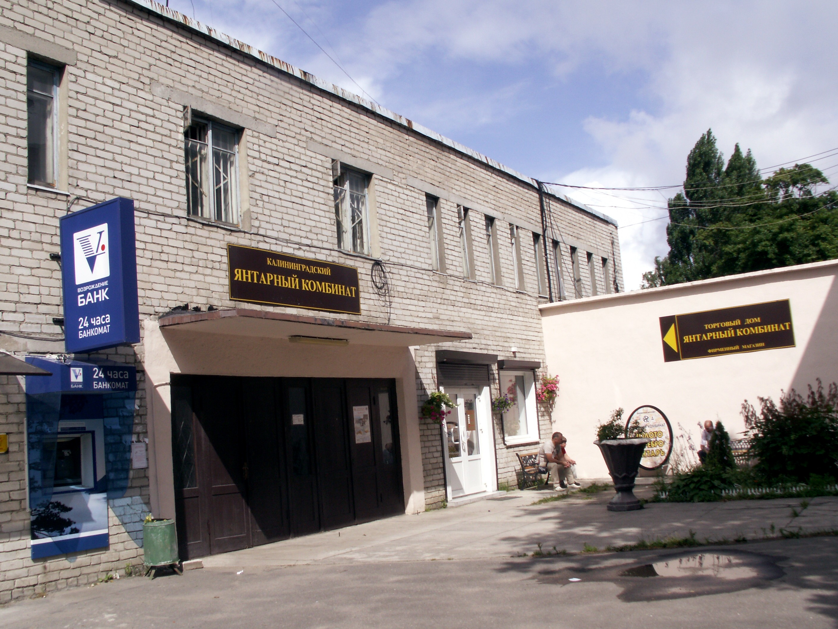 Yantarny amber factory museum in Kaliningrad oblast